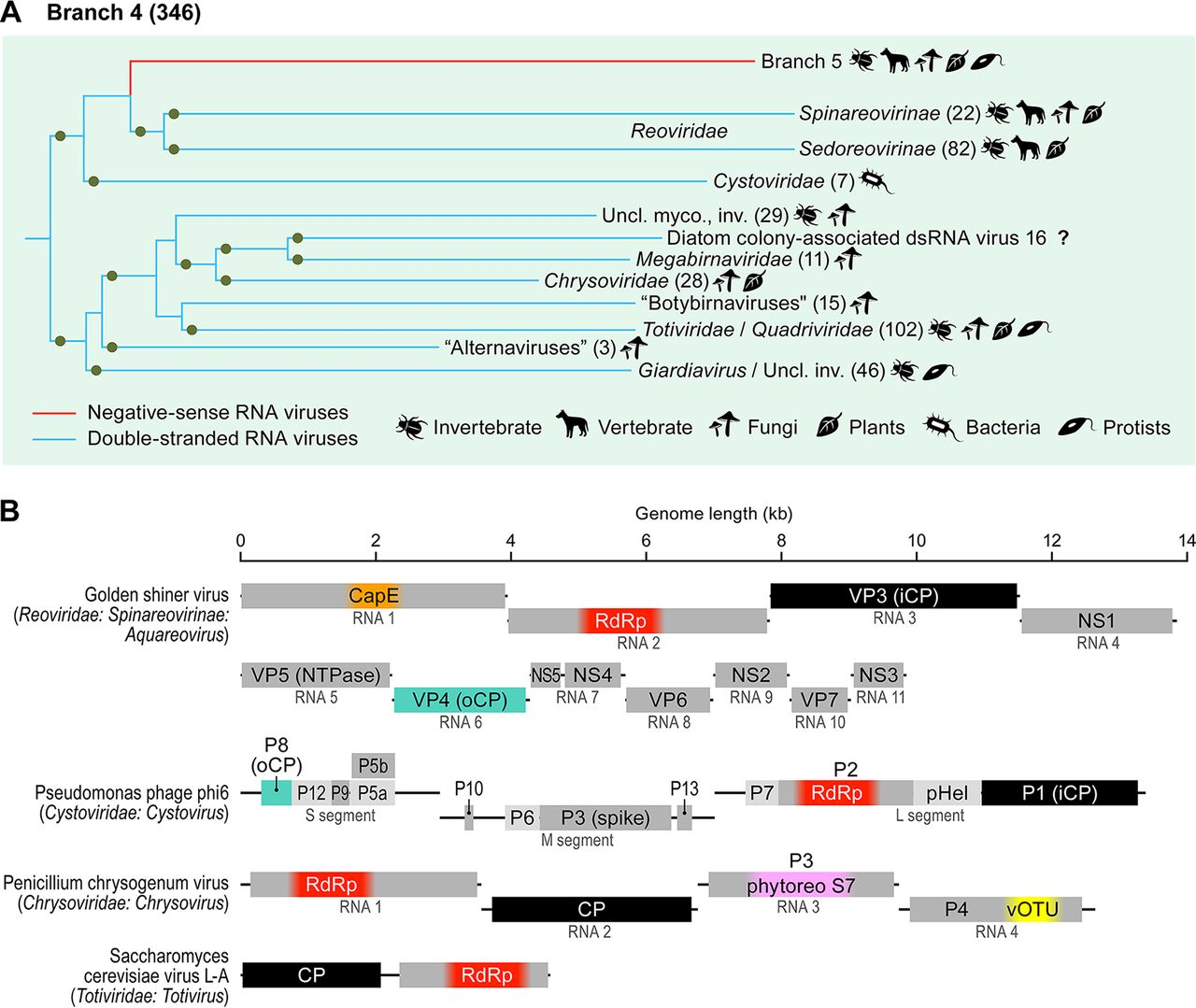 Branch 4 of the RNA virus RNA-dependent RNA polymerases (RdRps): dsRNA viruses of eukaryotes and prokaryotes. (A) Phylogenetic tree of the virus RdRps showing ICTV-accepted virus taxa and other major groups of viruses. Approximate numbers of distinct virus RdRps present in each branch are shown in parentheses. Symbols to the right of the parentheses summarize the presumed virus host spectrum of a lineage. Inv., viruses of invertebrates (many found in holobionts, making host assignment uncertain); myco., mycoviruses; uncl., unclassified. Green dots represent well-supported (≥0.7) branches. (B) Genome maps of a representative set of branch 4 viruses (drawn to scale) showing color-coded major conserved domains. Where a conserved domain comprises only a part of the larger protein, the rest of this protein is shown in light gray. The locations of such domains are approximated (indicated by fuzzy boundaries). CapE, capping enzyme; CP, capsid protein; iCP, internal capsid protein; NS, nonstructural protein; NTPase, nucleotide triphosphatase; oCP, outer capsid protein; P, protein; phytoreoS7, homolog of S7 domain of phytoreoviruses; pHel, packaging helicase; vOTU, virus OTU-like protease; VP, viral protein. The CPs of totiviruses and chrysoviruses are homologous to iCPs of reoviruses and cystoviruses (black rectangles).